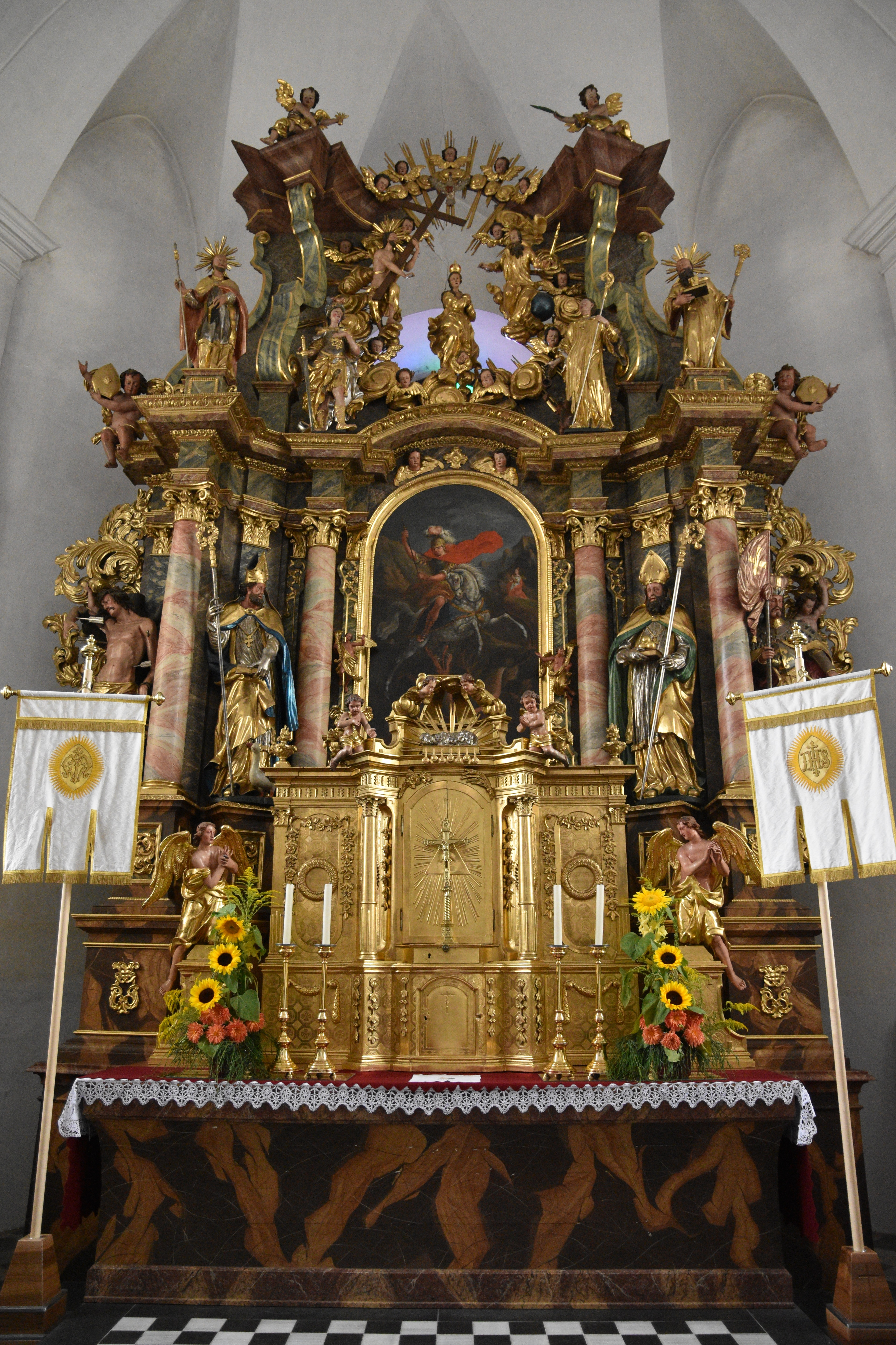 Church Kath Pfarrkirche hl Georg und ehem Friedhof Interior